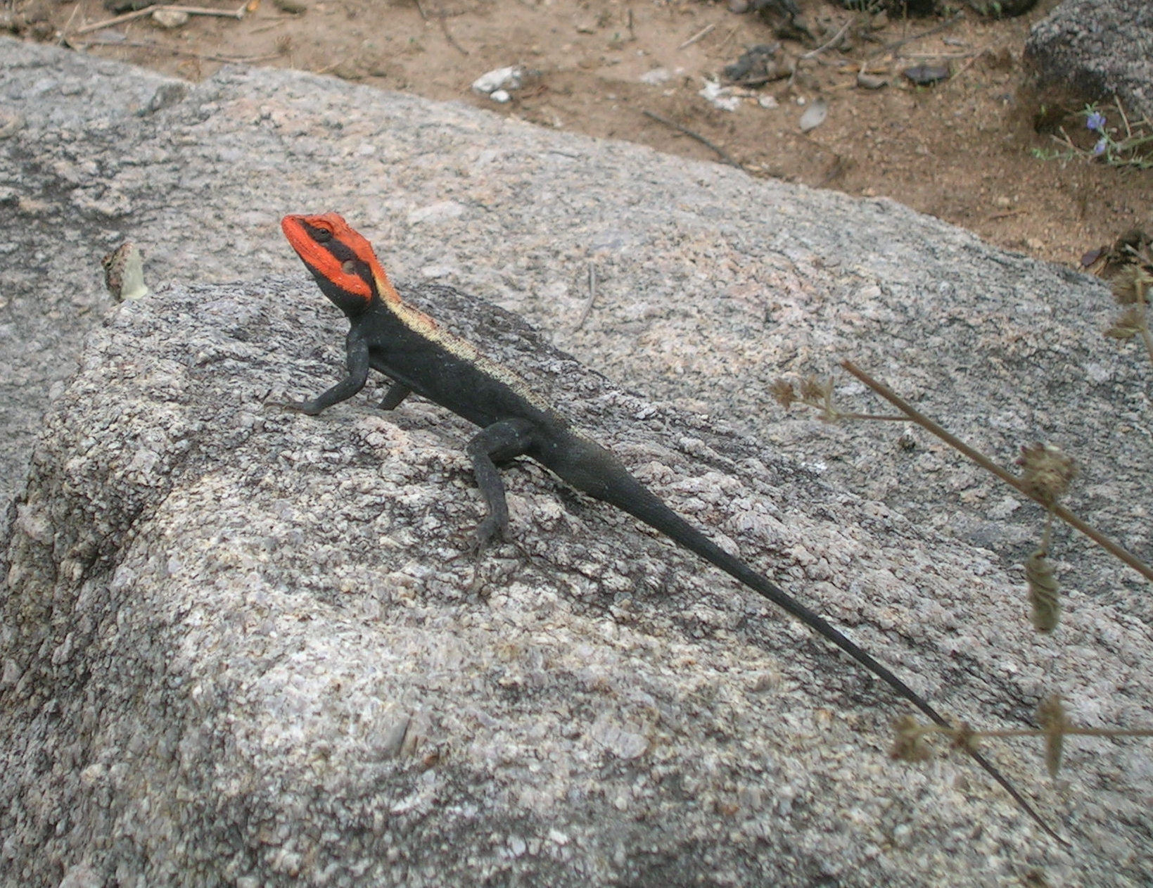 Psammophilus blanfordanus - identification not confirmed by scale counts but based on distribution range